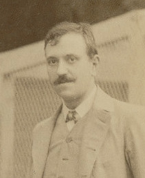 Portrait of Maria Carrara Verdi, Barberina Strepponi, Giuseppe Verdi, Giuditta Ricordi, Teresa Stolz, Umberto Campanari, Giulio Ricordi, Leopoldo Metlicovitz. Photo by Giulio Rossi, Sant'Agata, 1900.